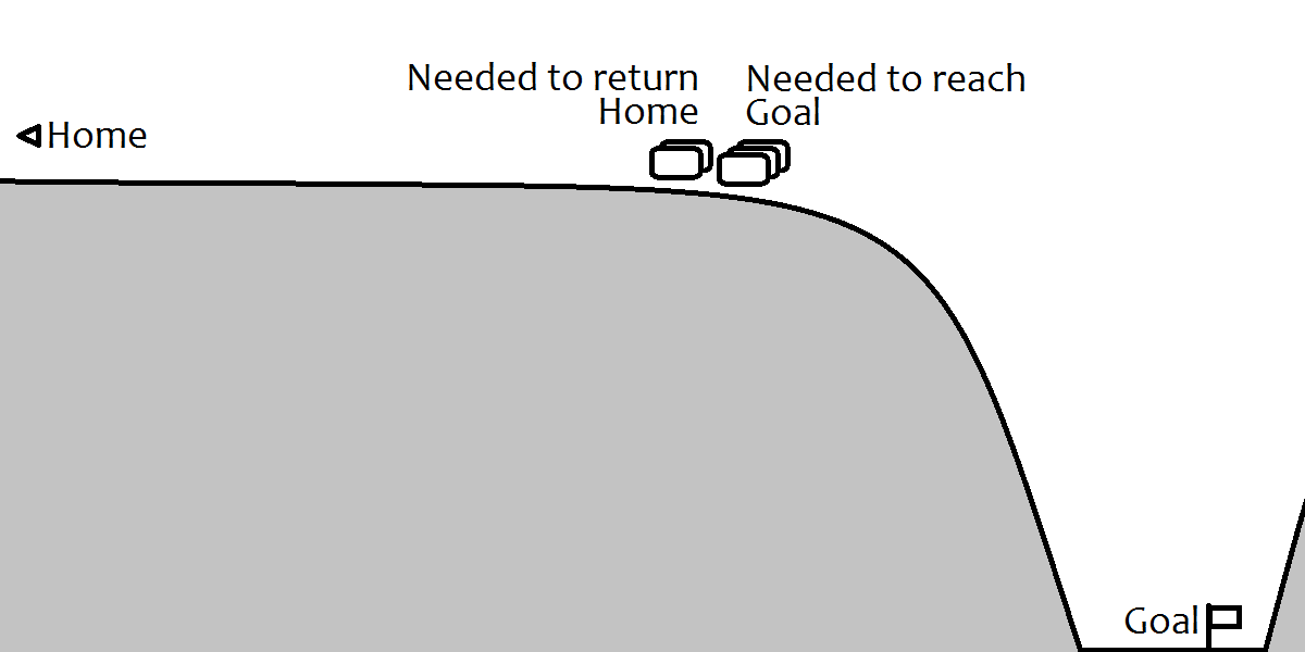 Lunar Orbit Rendezvous explained in terms of gravity well efficiency. If on an expedition to the bottom of a canyon, it is a waste of energy to transport everything needed, including what is only needed for the return trip home. It is much more efficient to leave the return supplies at the top of the canyon, and get them on your way back out after having reached the goal at the bottom of the canyon bringing only the supplies necessary for that part of the expedition. Likewise, when descending the gravity well of the Moon to reach the surface, it is far more efficient to leave in lunar orbit what is needed for the return voyage to Earth, and then rendezvous with those resources only after having ascended from the landing base. In this diagram, the horizontal x-axis depicts distance while the vertical y-axis graphs the gravitational potential energy due to the Moon's mass.